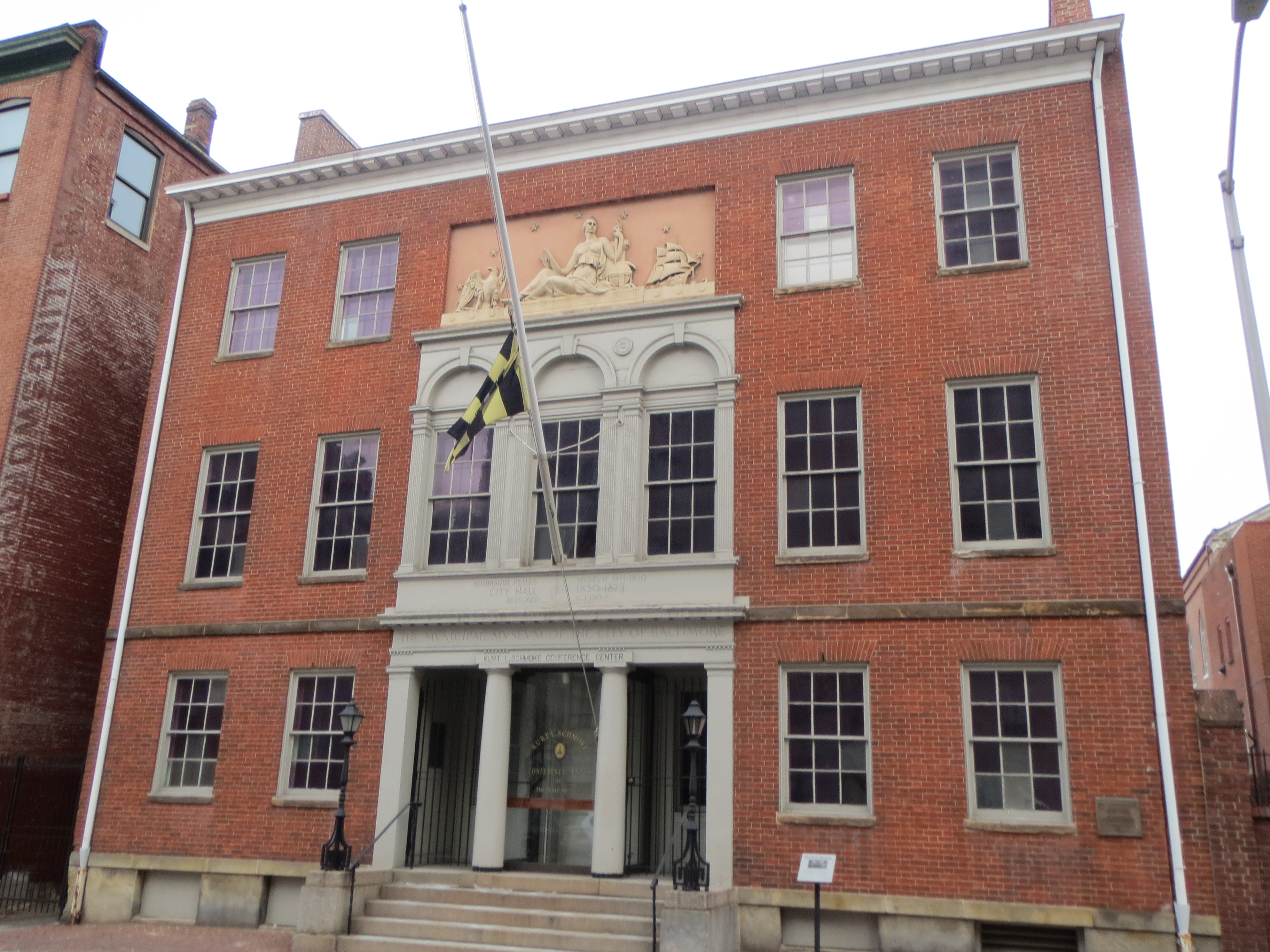 An image of the Peale Museum. It was created in 1814 by Charles Wilson Peale and Rembrandt Peale. It was the first building designed as a museum in the United States. This site was selected for Endangered Maryland in 2011.